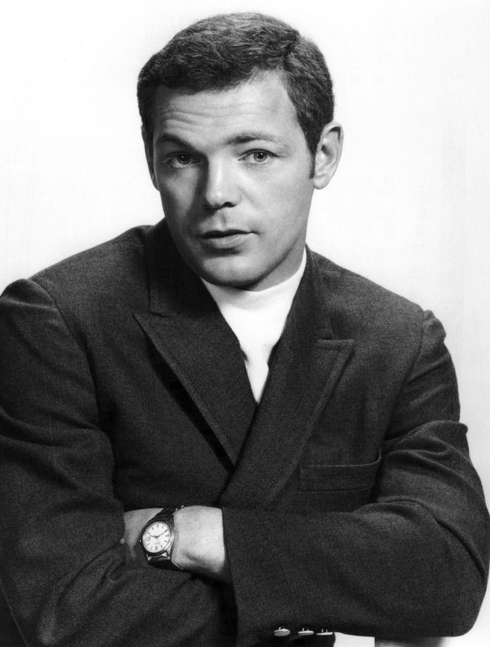 Publicity photo of James MacArthur from the premiere of the television program Hawaii Five-O.